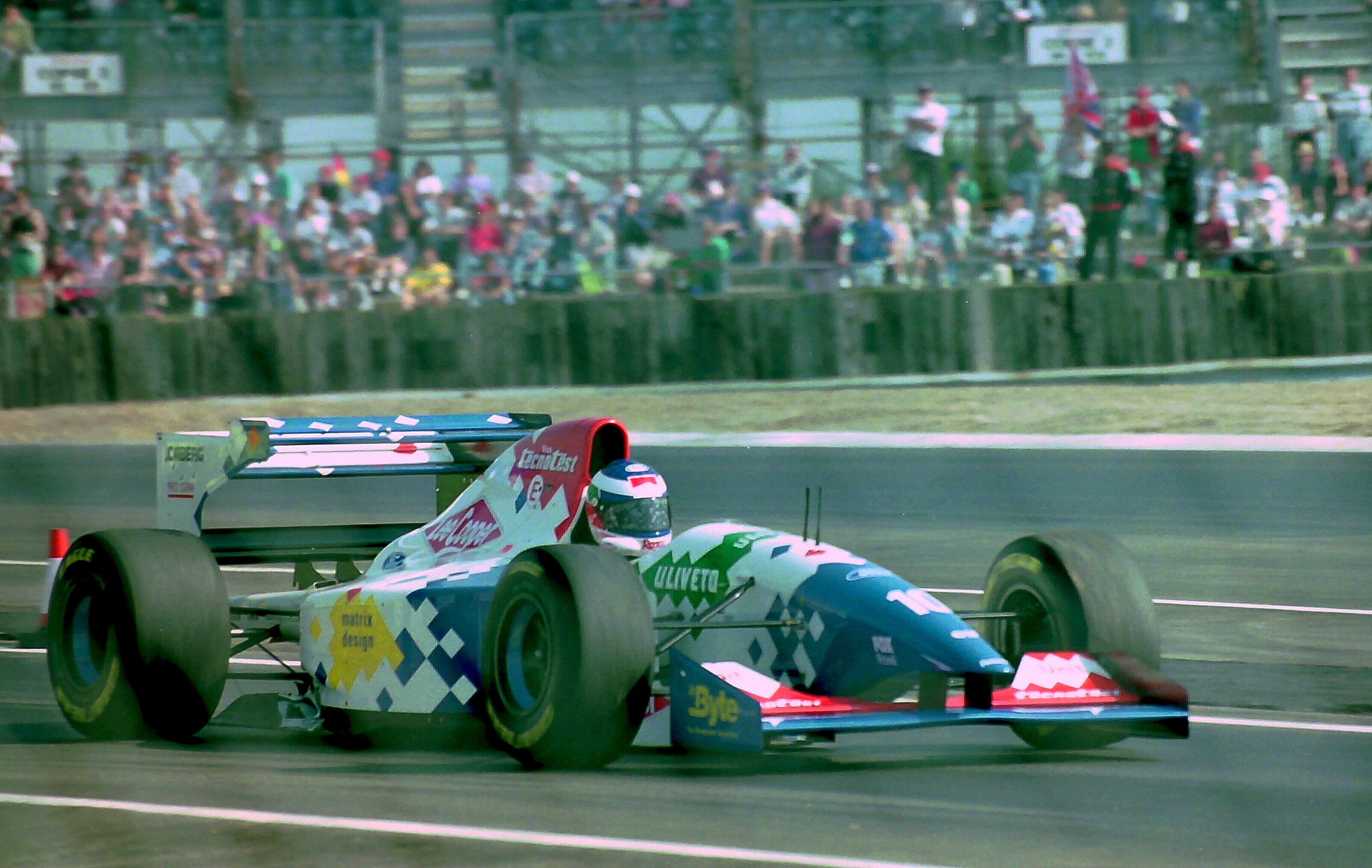 Gianni Morbidelli - Footwork FA15 leaves the pits at the 1994 British Grand Prix